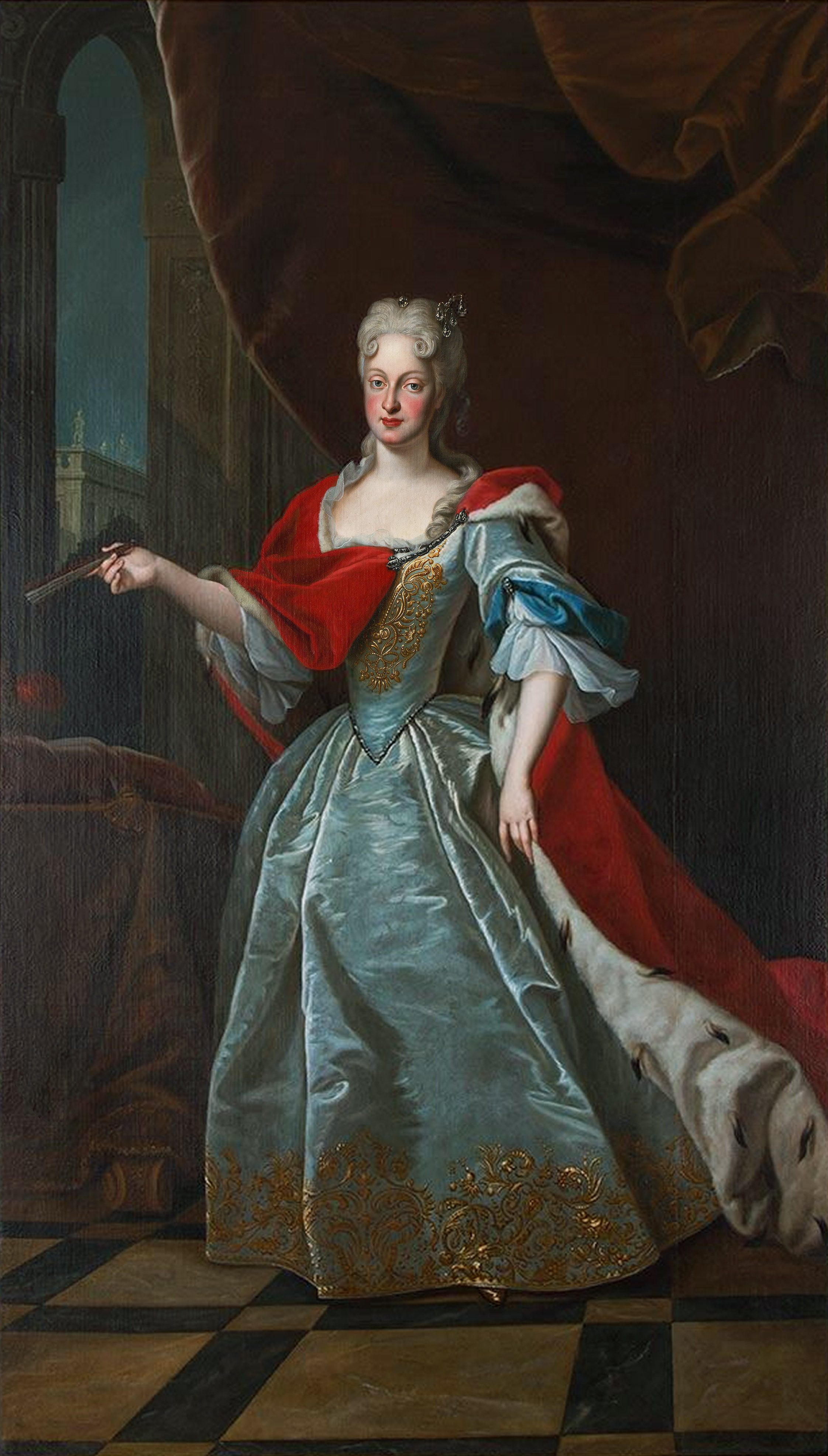 Portrait of Maria Josepha of Austria (1699-1757)